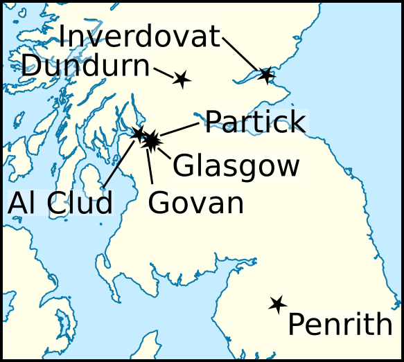 Map for the Wikipedia article concerning Eochaid, son of Rhun (fl. 878–889).